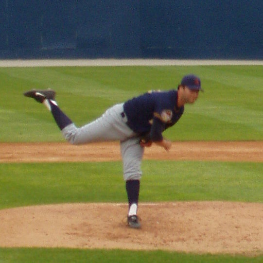 Peoria Chiefs pitcher Andy Cavazos delivers a pitch to Battle Creek Yankees hitter during a 2003 game in Battle Creek, Michigan